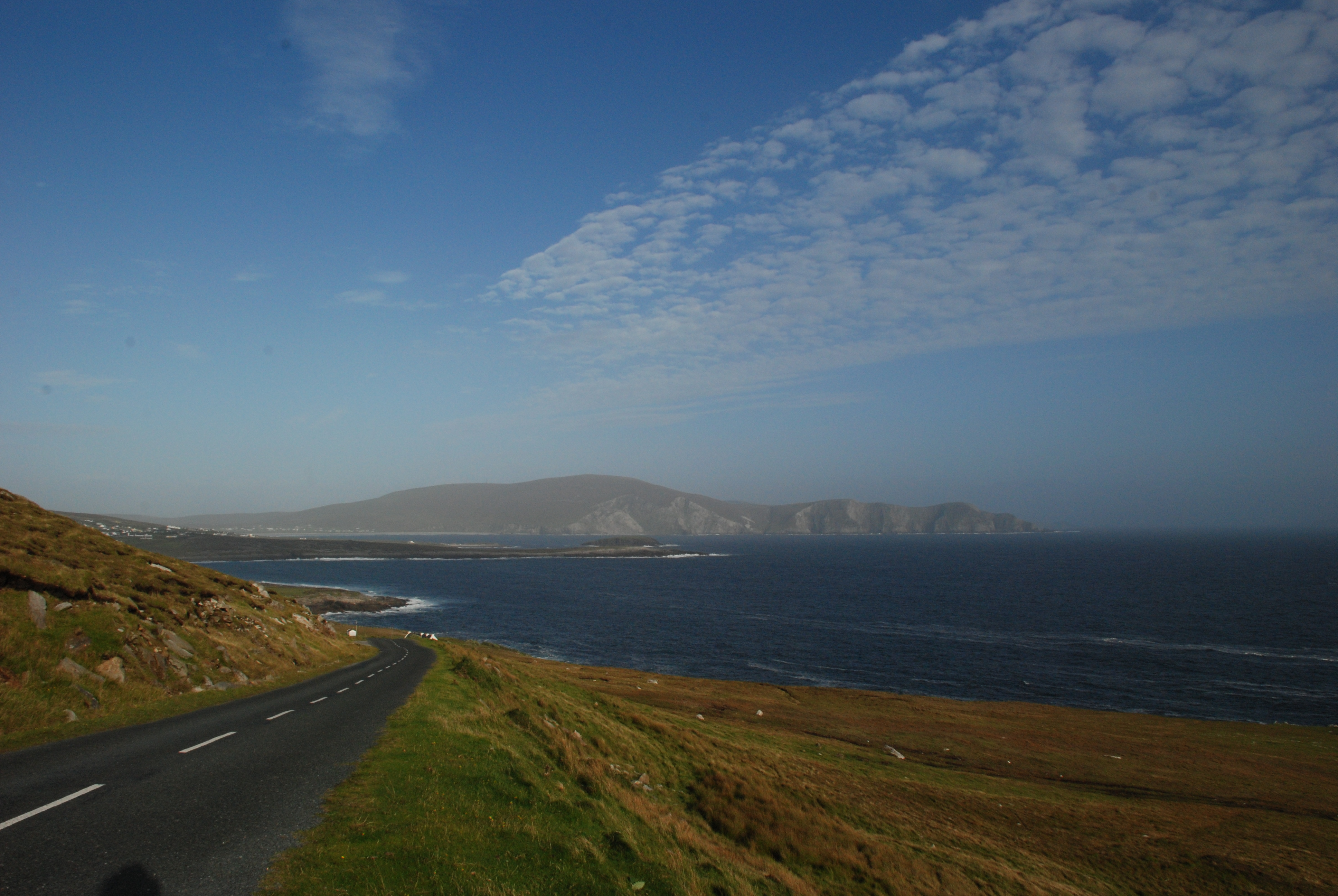 Achill Island, Croaghaun view